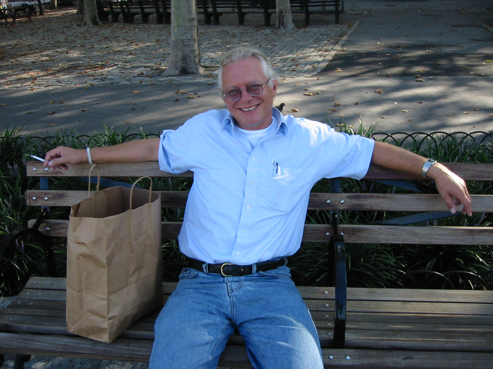 Davy Sidjanski in New York